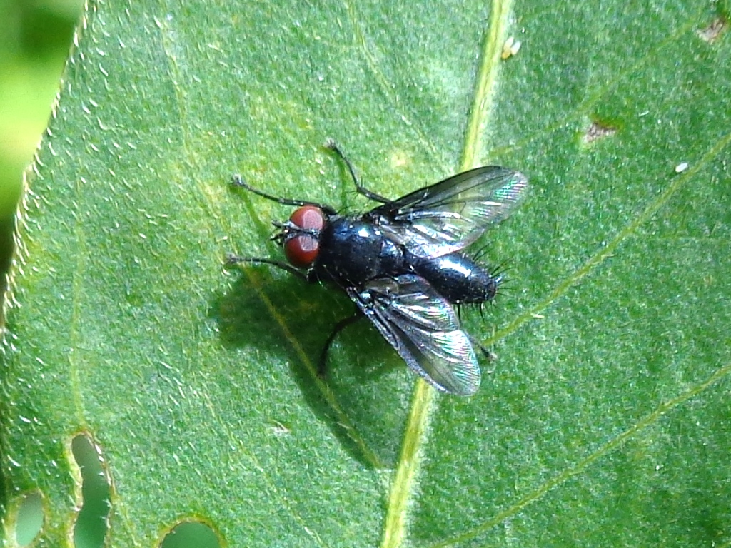 Nyctia halterata. Found in Bērzi village near Bauska city, Latvia